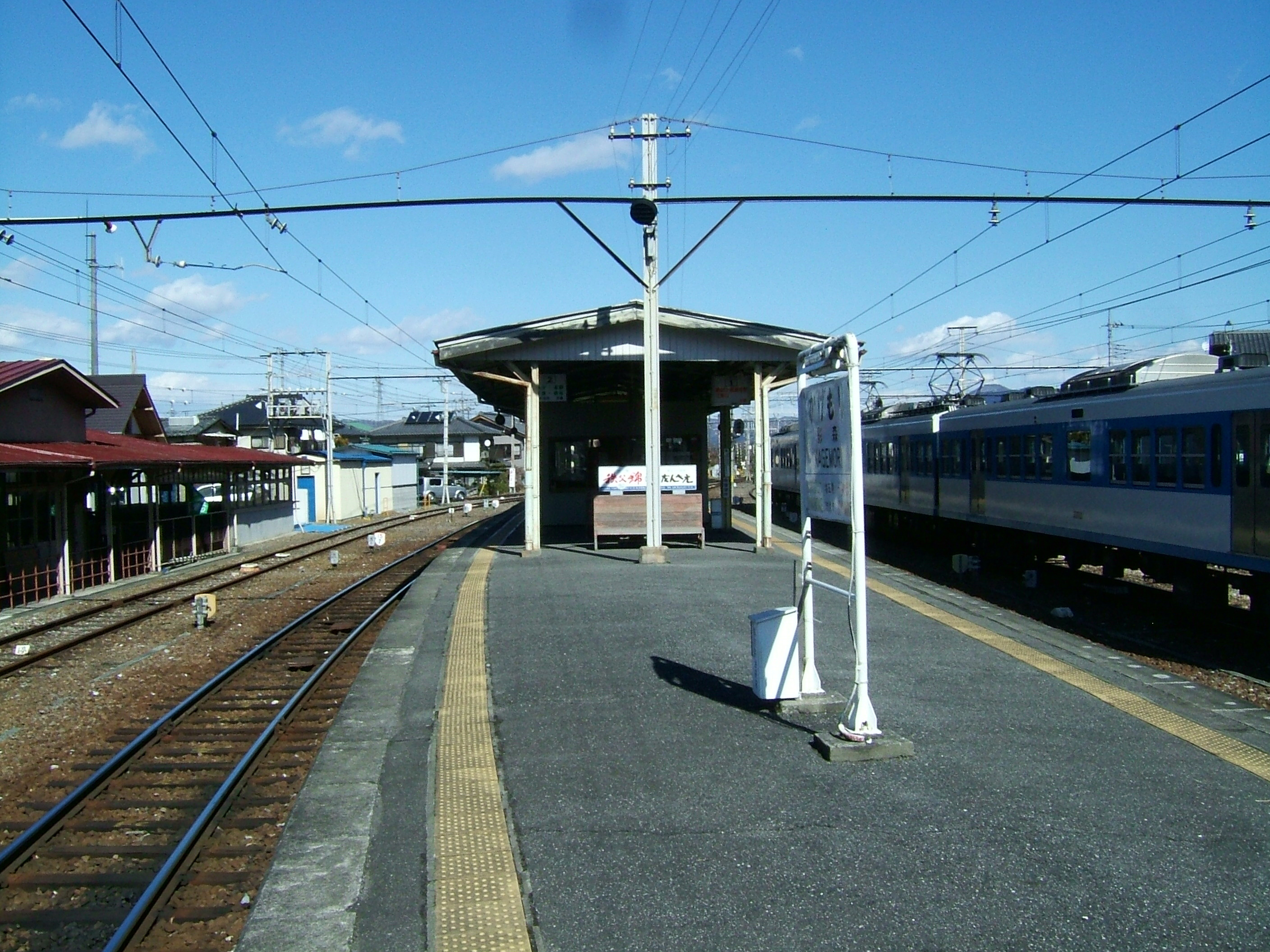 The platforms at Kagemori Station on the Chichibu Main Line